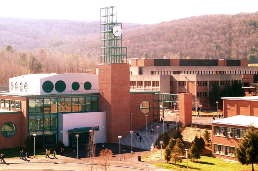 University Union at Binghamton, Clock Tower